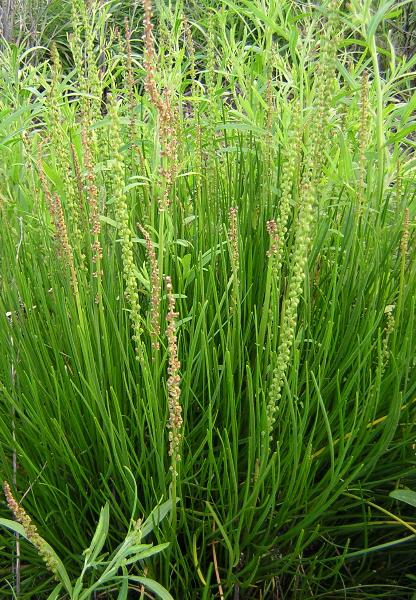 Triglochin maritimum Source : [1]